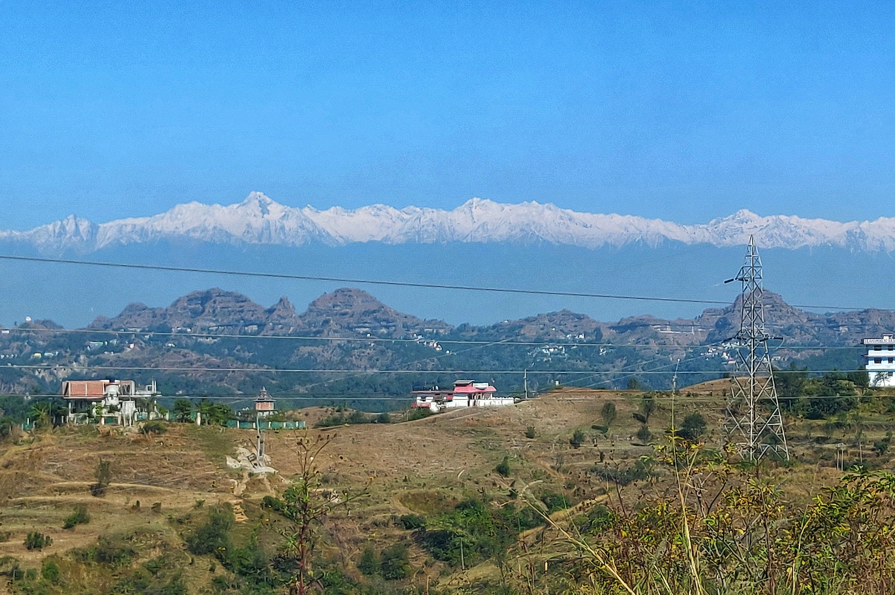 This photograph is taken near the village "Kot" during the winter season